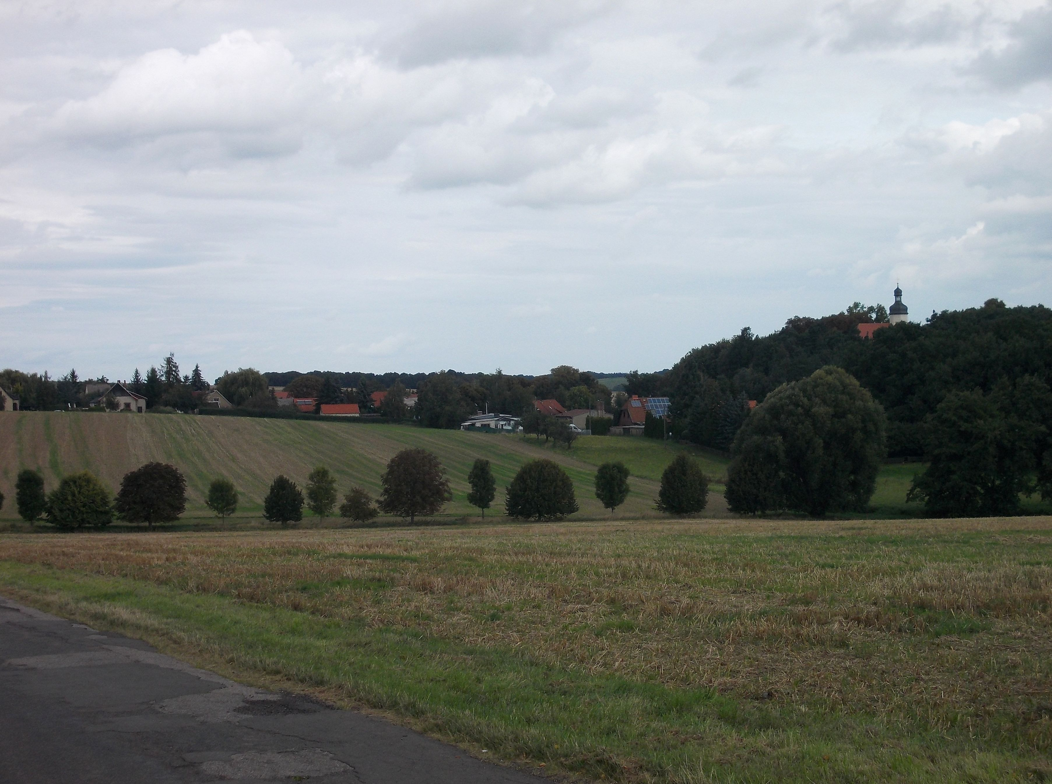 Casekirchen (Molauer Land, district: Burgenlandkreis, Saxony-Anhalt) from the south